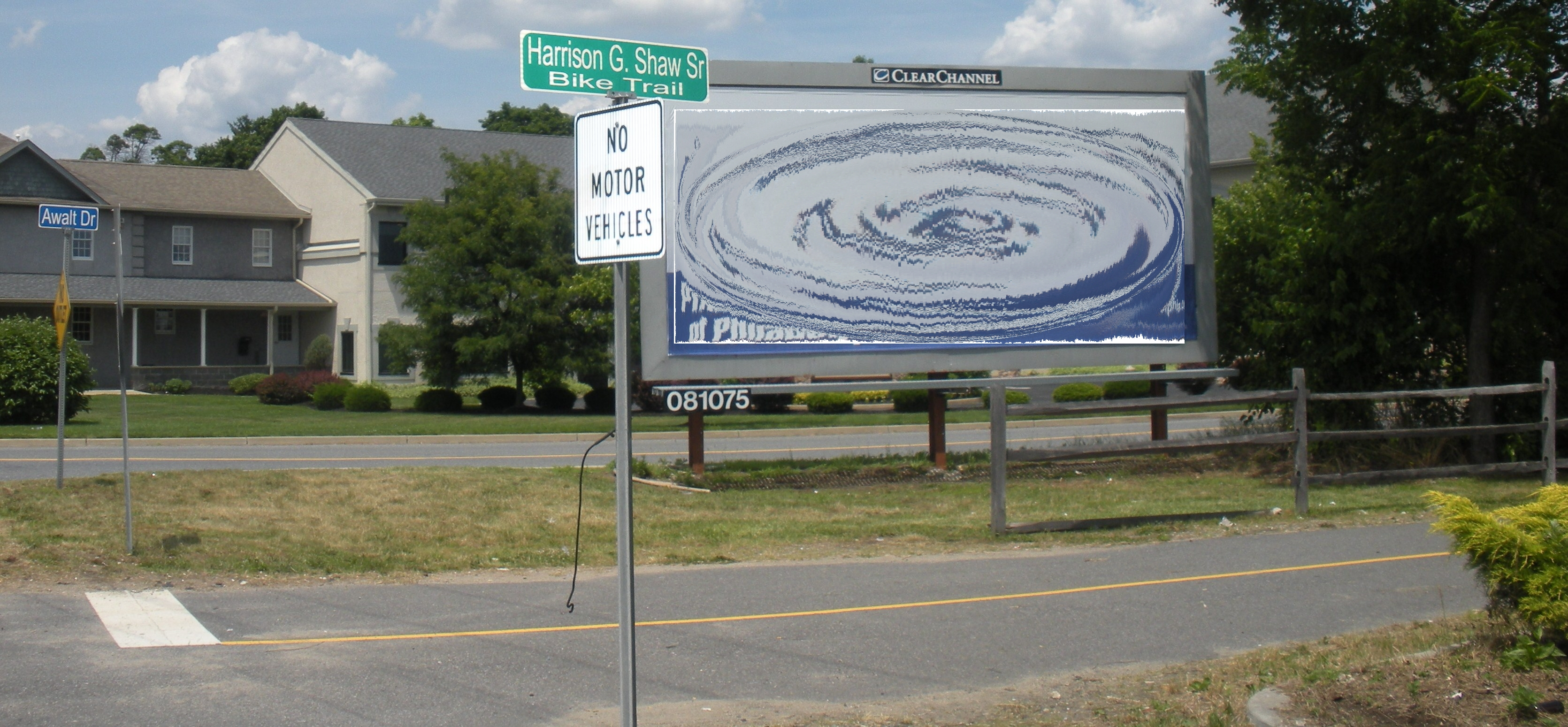 Harrison Shaw Bike Trail